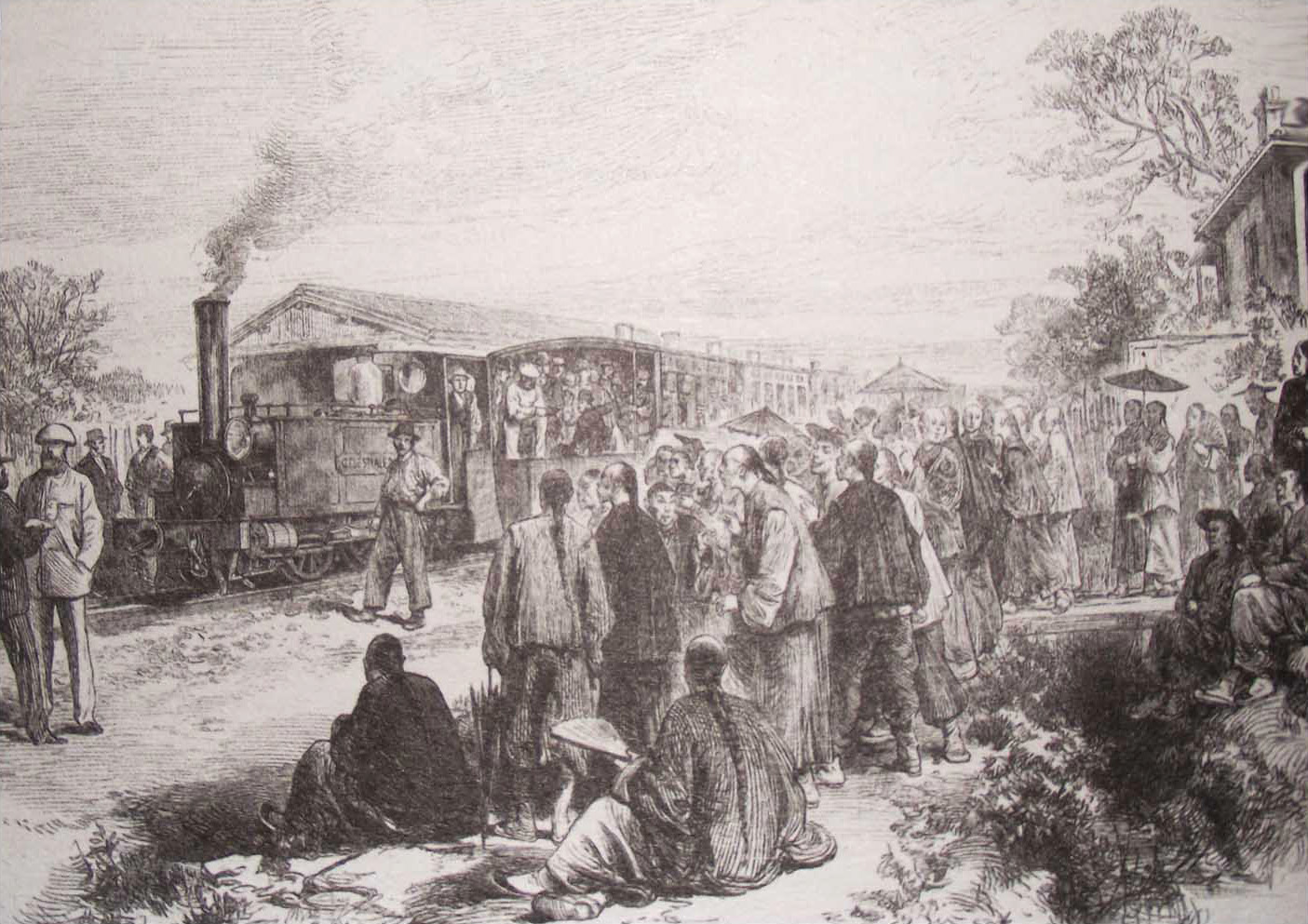 Opening of the first railway in China from Shanghai to Woosung Port, 1876